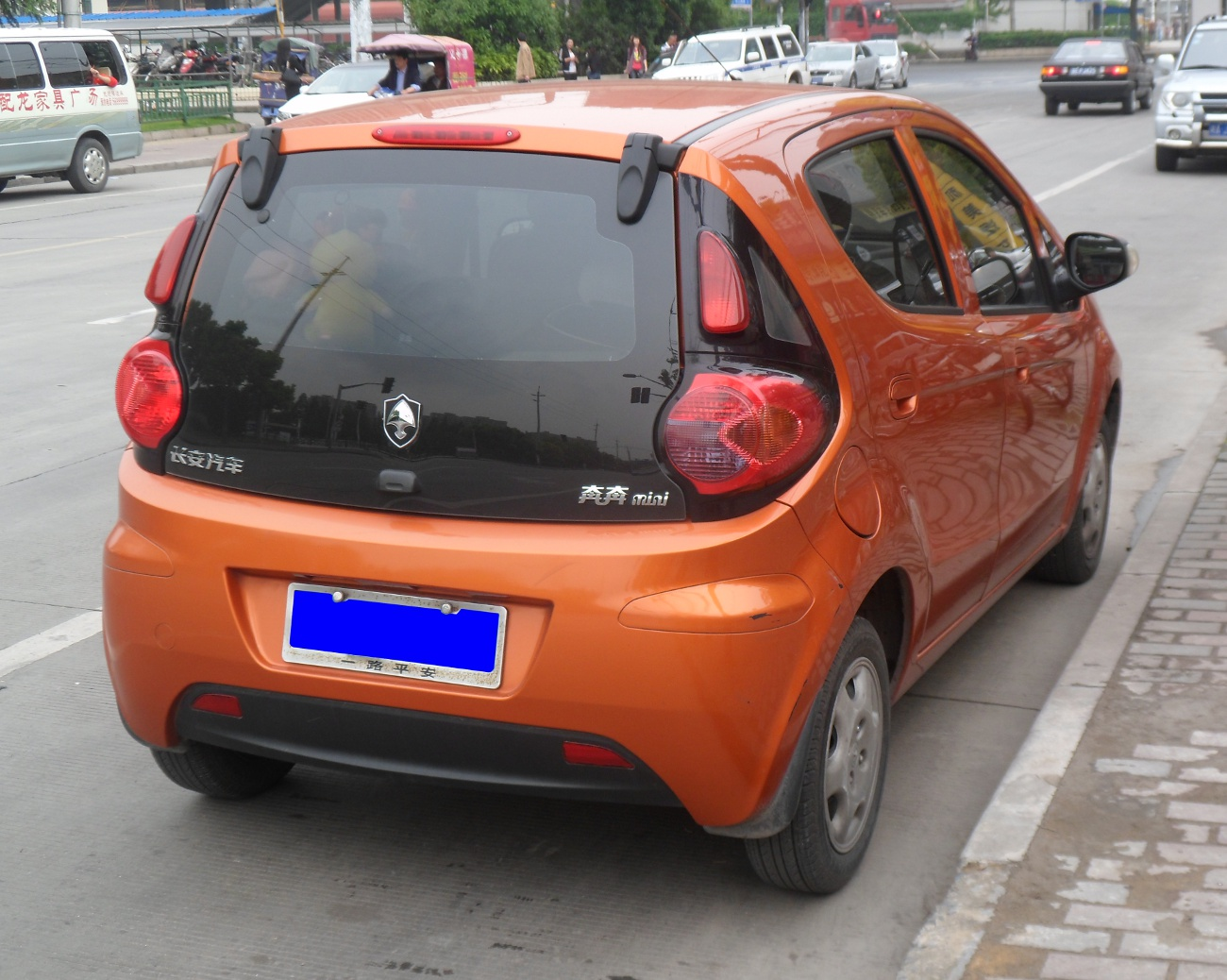 Chang'an Ben Ben Mini photographed in Shanghai, China.